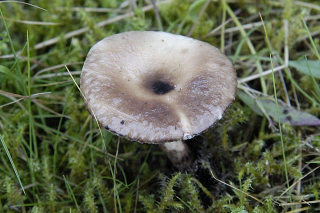 Omphalina griseopallida from Commanster, Belgium. If you think this is a different taxon, please contact James Lindsey.